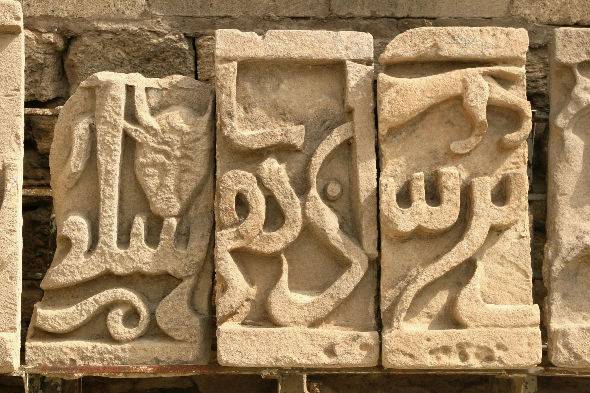 The Shirvanshahs ruled the state of Shirvan in northern Azerbaijan from the 6th to the 16th centuries. Their attention first shifted to Baku in the 12th century, when Shirvanshah Manuchehr III ordered that the city be surrounded with walls. In 1191, after a devastating earthquake destroyed the capital city of Shamakhi, the residence of the Shirvanshahs was moved to Baku, and the foundation of the Shirvanshah complex was laid. This complex, built on the highest point of Ichari Shahar, remains as one of the most striking monuments of medieval Azerbaijani architecture.